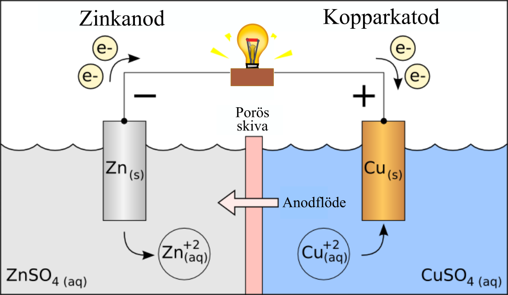 Galvanic cell